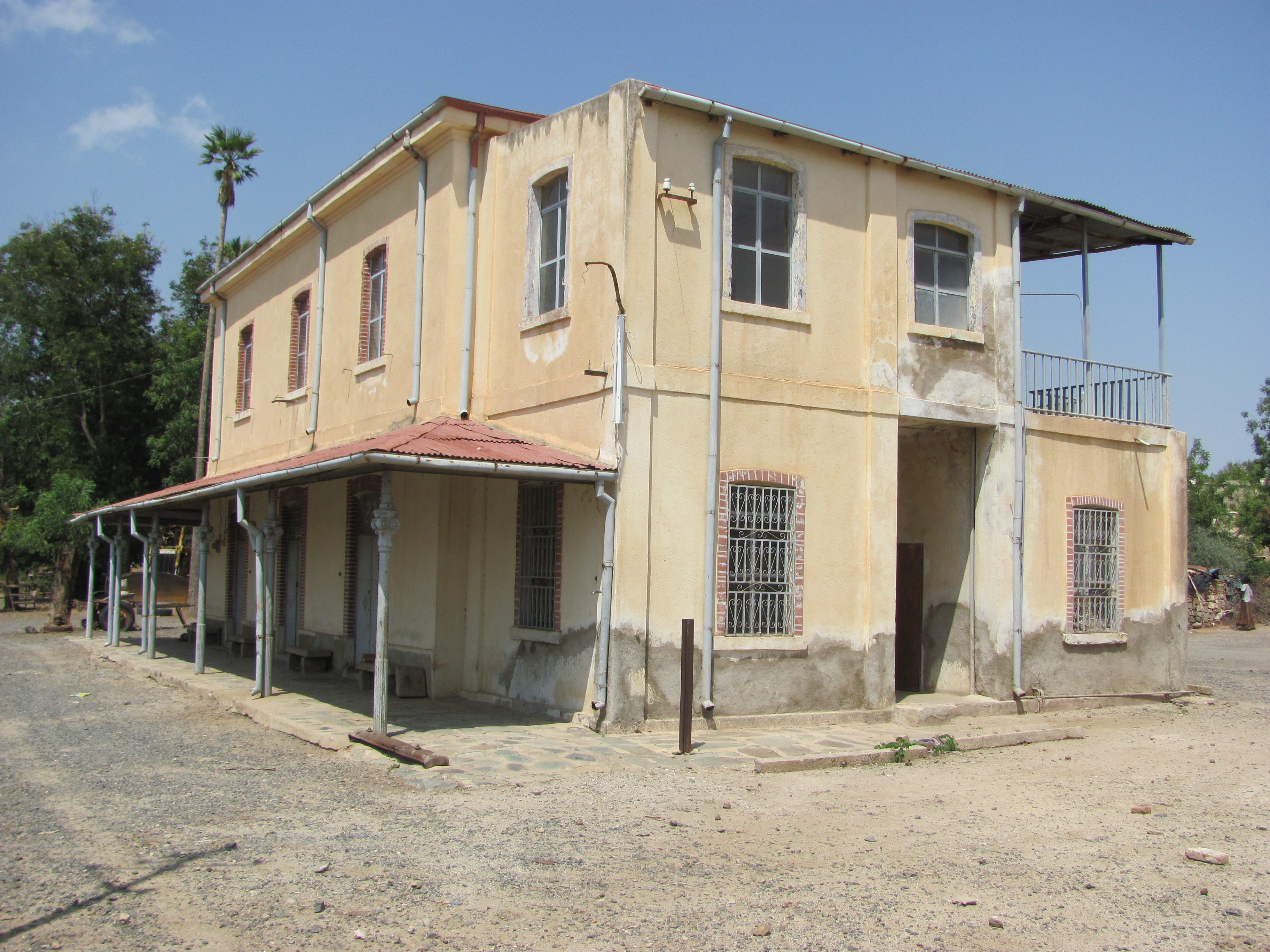 Ghinda rly station